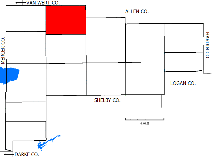 Taken from the Auglaize County map provided by Prinzwilhelm, who claimed that the original map was "self-created based on U.S. Government Census Maps and Date," and modified by myself to show the highlighted township.